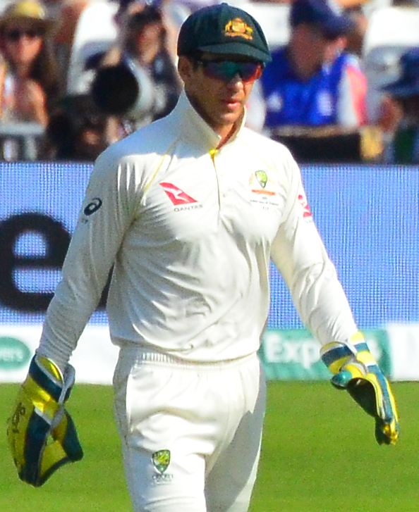 Poised for the start of Day 4 of the 3rd Test of the 2019 Ashes: Ben Stokes; Tim Paine; umpire Joel Wilson; Usman Khawaja and Matthew Wade